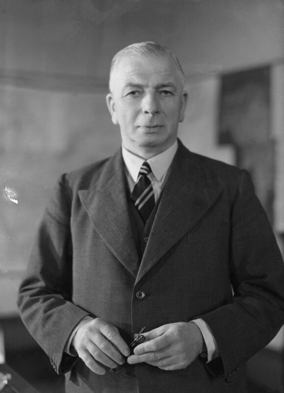 half-plate film negative